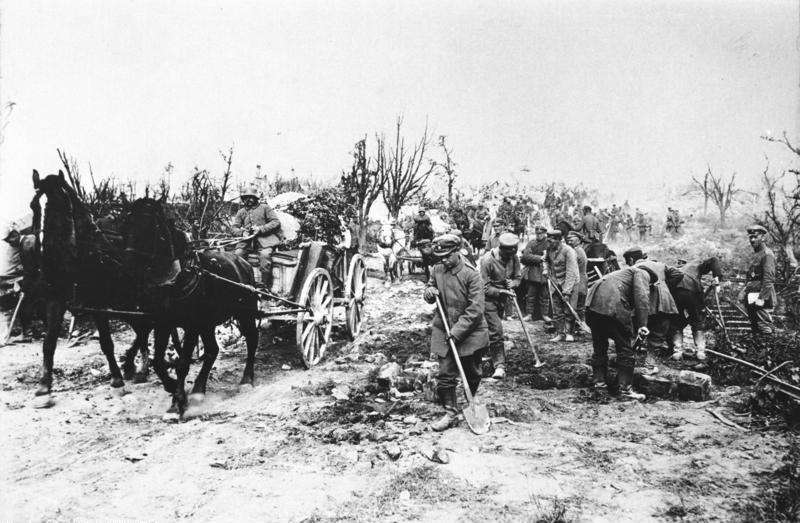 World War I, France, in Chavignon .- German pioneers and soldiers at work on a supply route of the Chemin des Dames